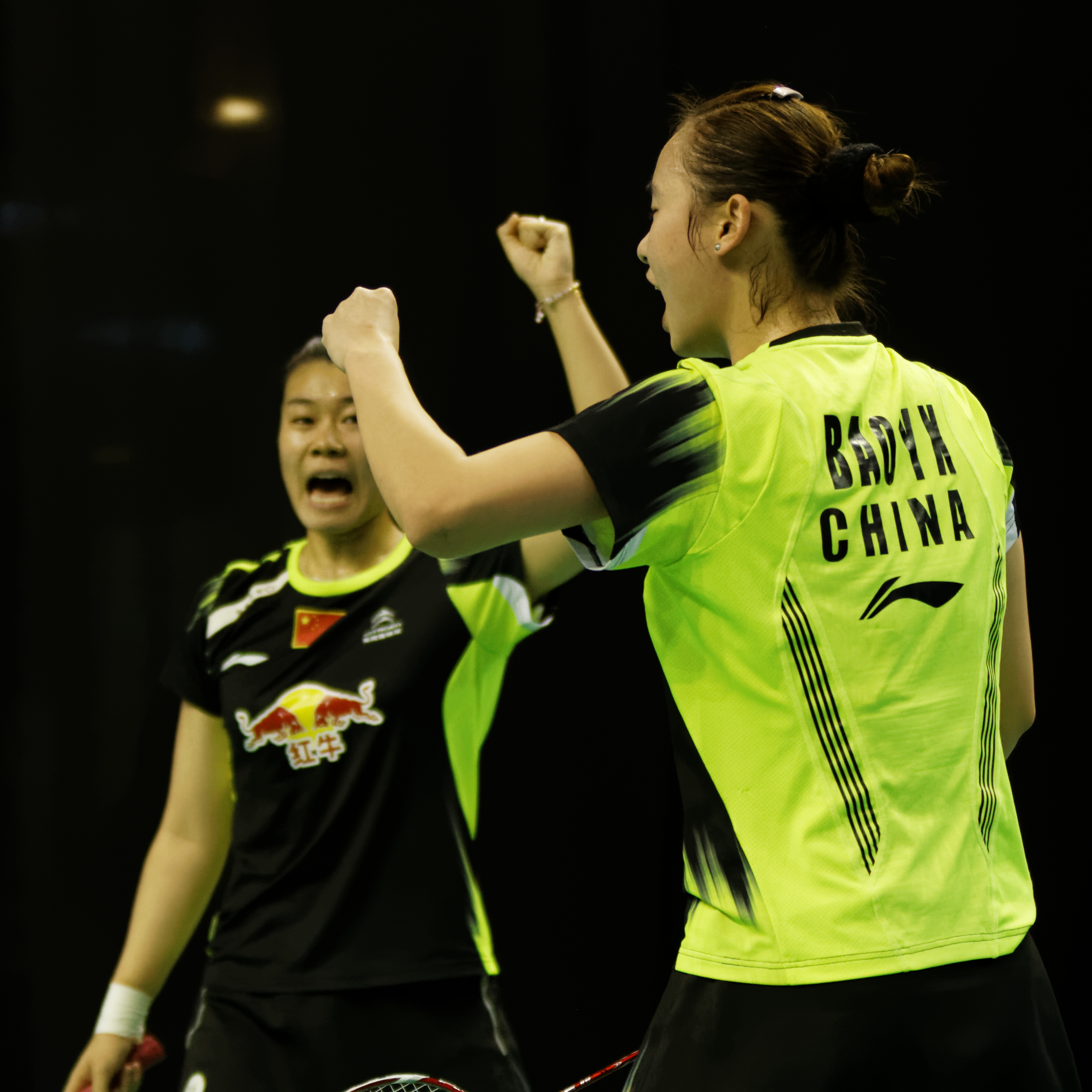 2013 French open. Women's doubles quarterfinal. Reika Kakiiwa and Miyuki Maeda vs Bao Yixin and Tang Jinhua.